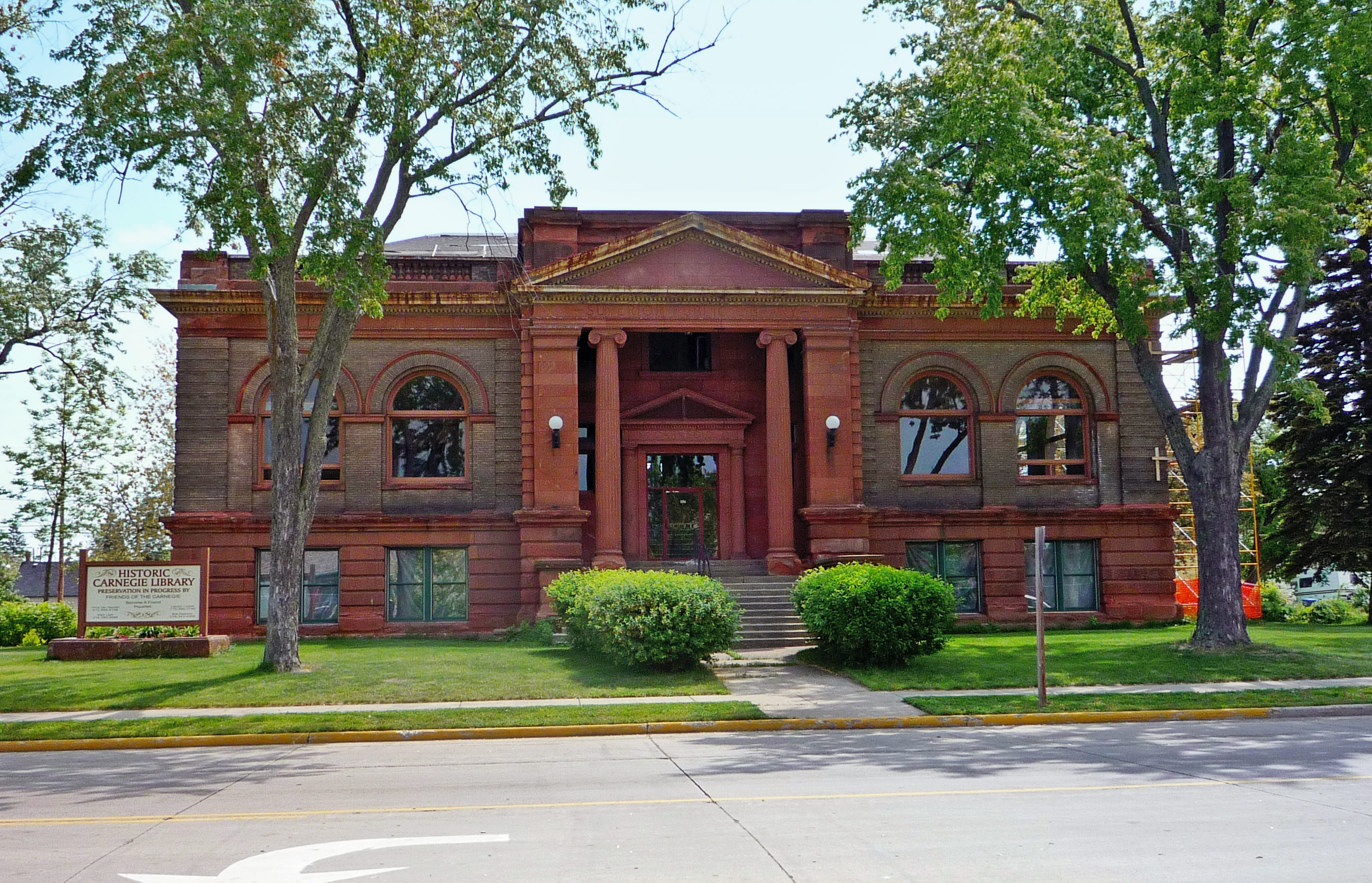 The first of two Carnegie librarys in Superior, Wisconsin, USA. This location was the main Superior Public Library from its completion in 1901 until December 31, 1991. It was then left in disuse and nearly demolished until a community organization purchased it and made some restorations. It is not open to the public.